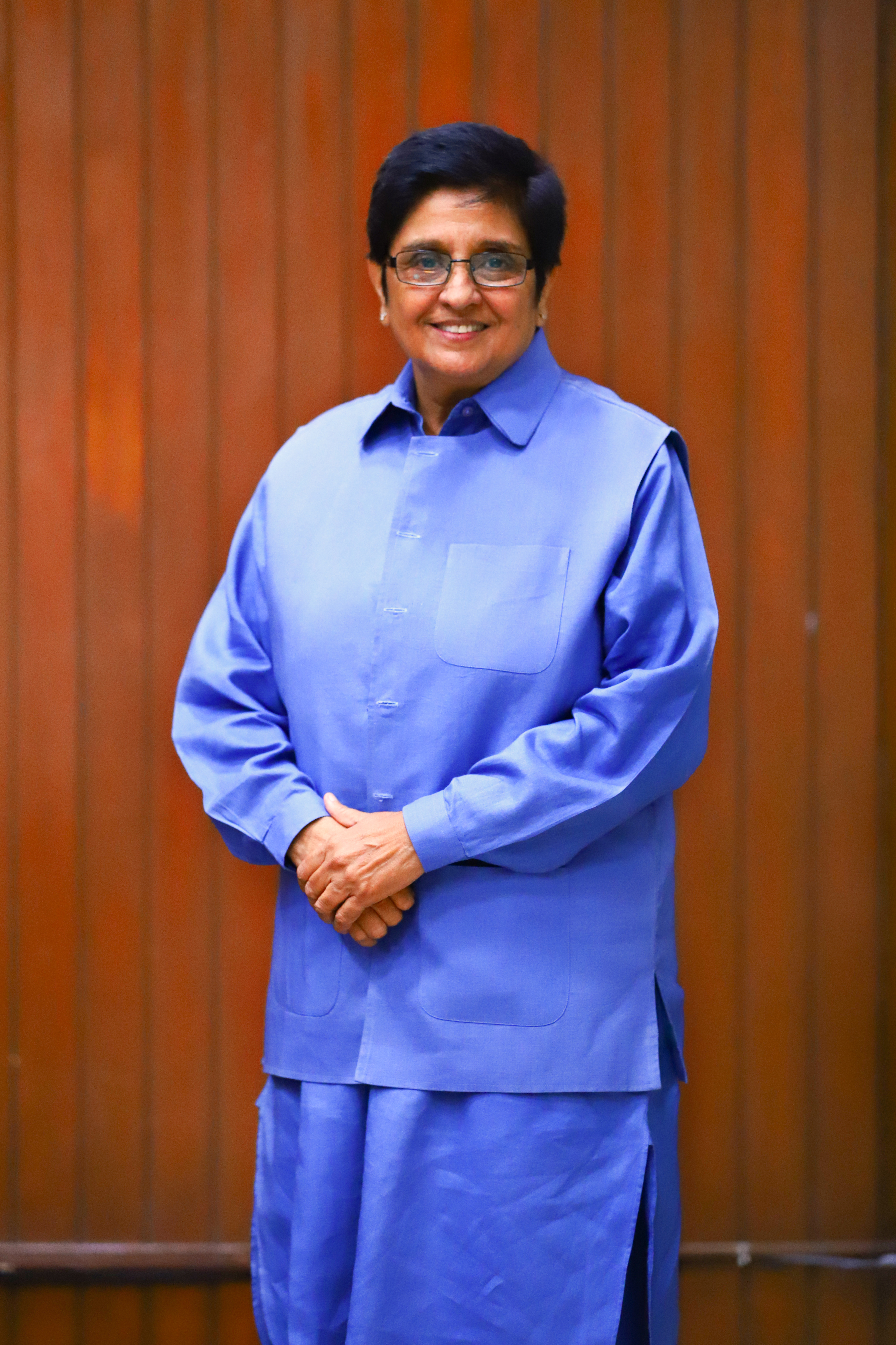 Dr.Kiran Bedi at Raj Nivas, Puducherry. Taken in 2017.